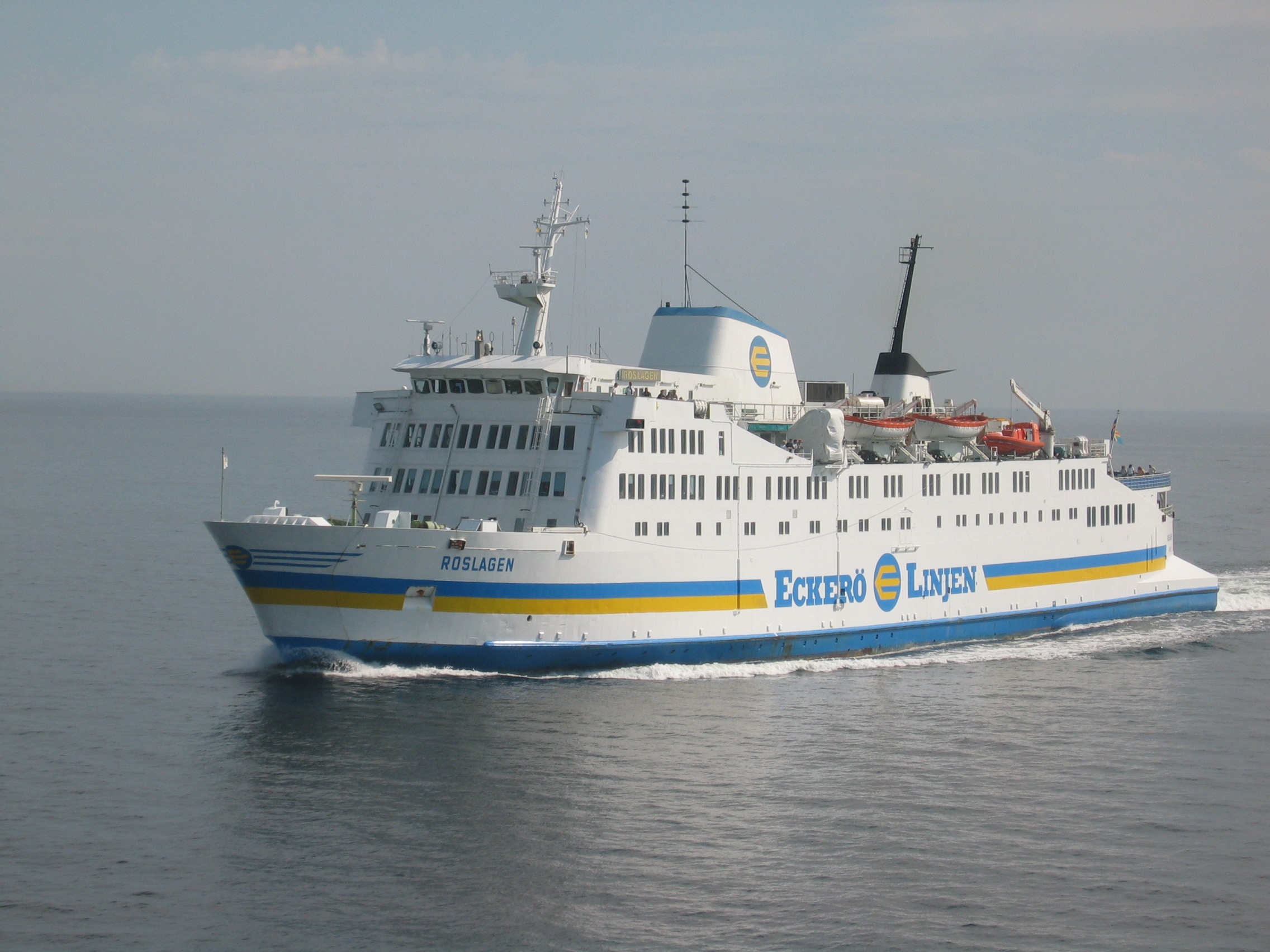 MS Roslagen in 2003.